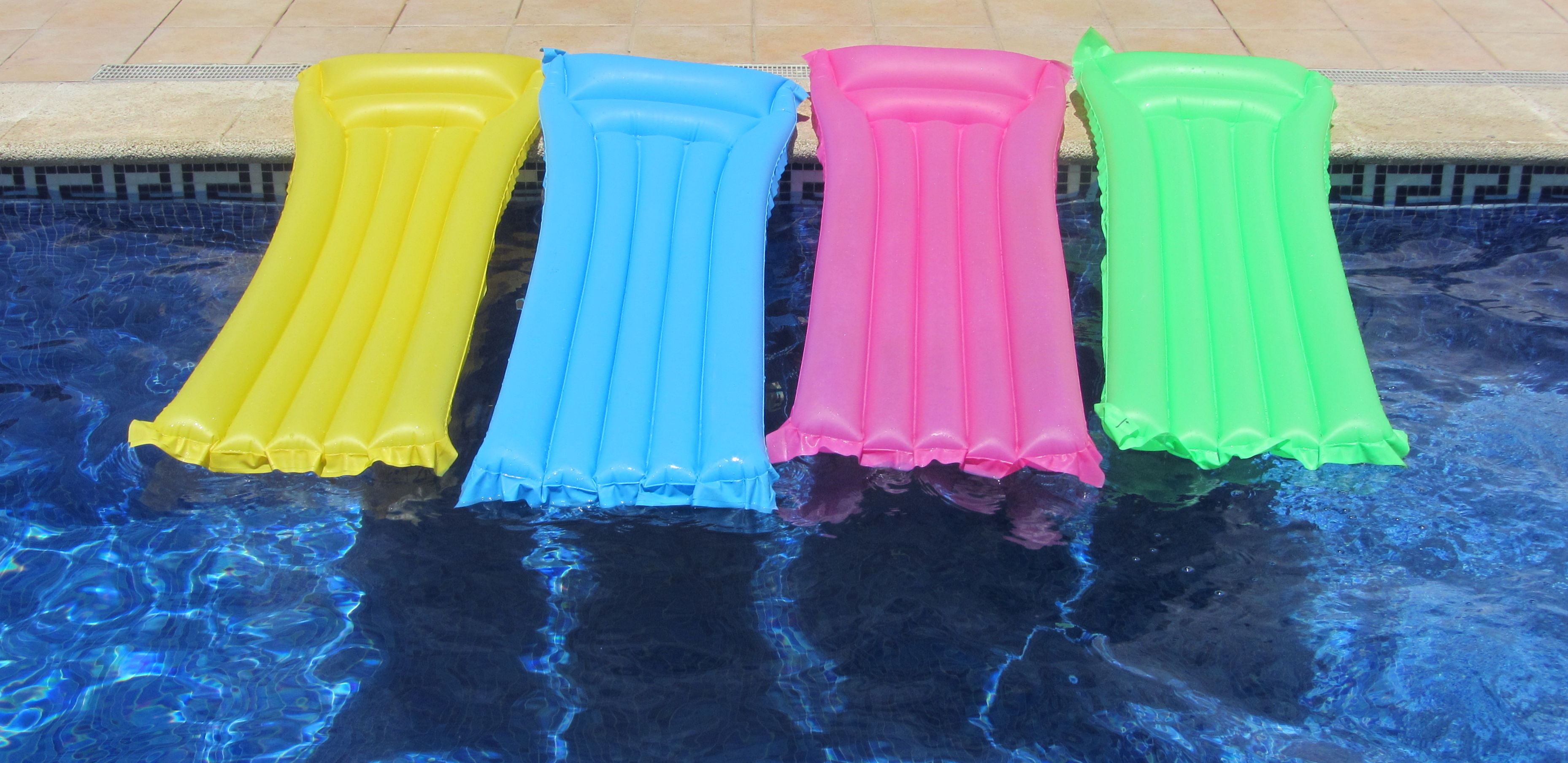 Four air mattresses.